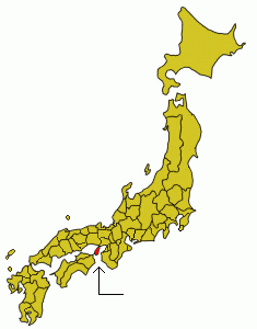 Small map of Awaji Province